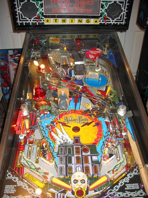 Bro´s last acquisition. ☺☺☺☺☺☺☺☺☺☺ This is as it was before the dissasembly and the cleaning. I hope he soon sends me an "after" photo. I am a pinball person (100% arcade), but not much fan of this pinball in particular. My fav is "Getaway". Do you have any favorite(s)?